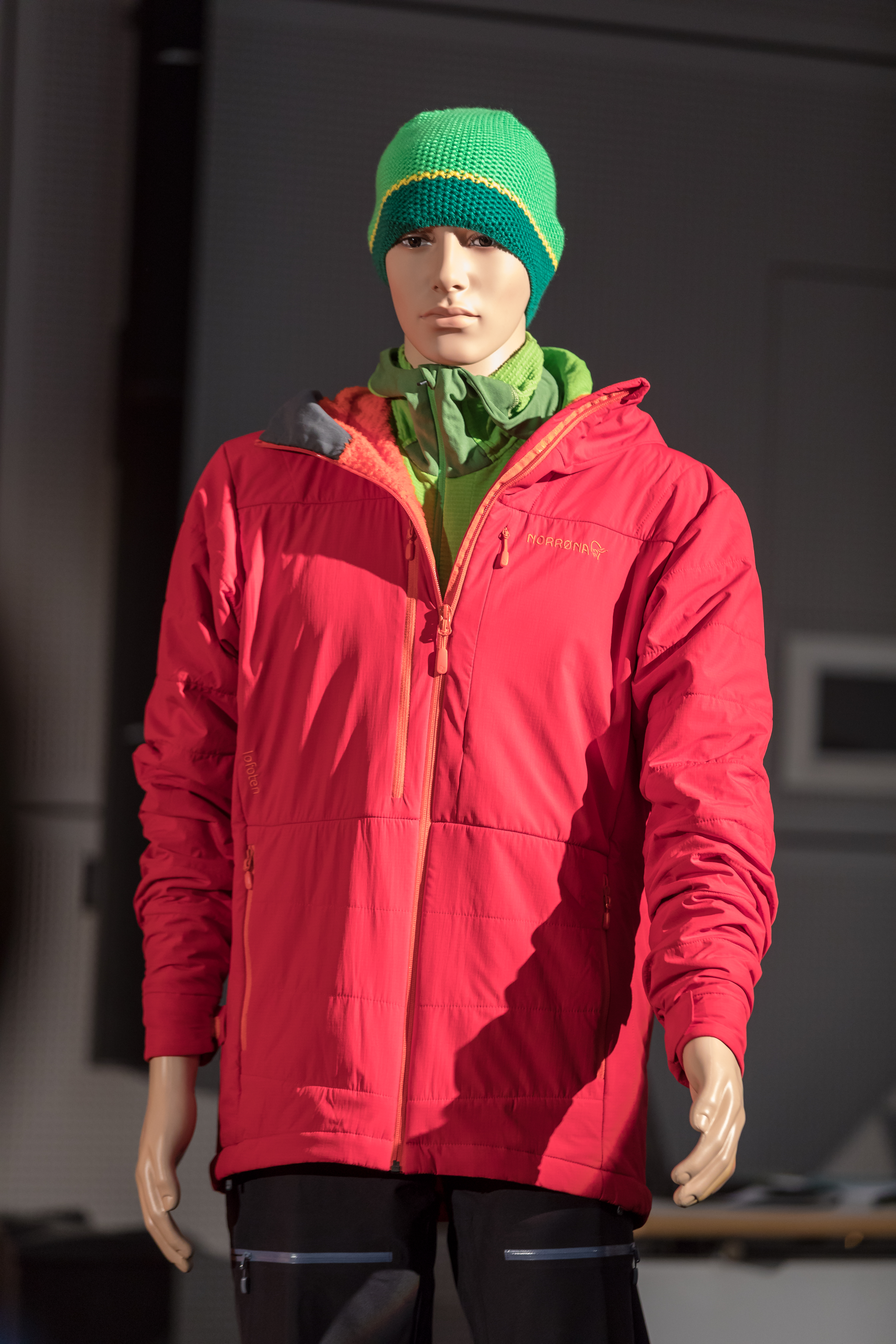 OutDoor 2018